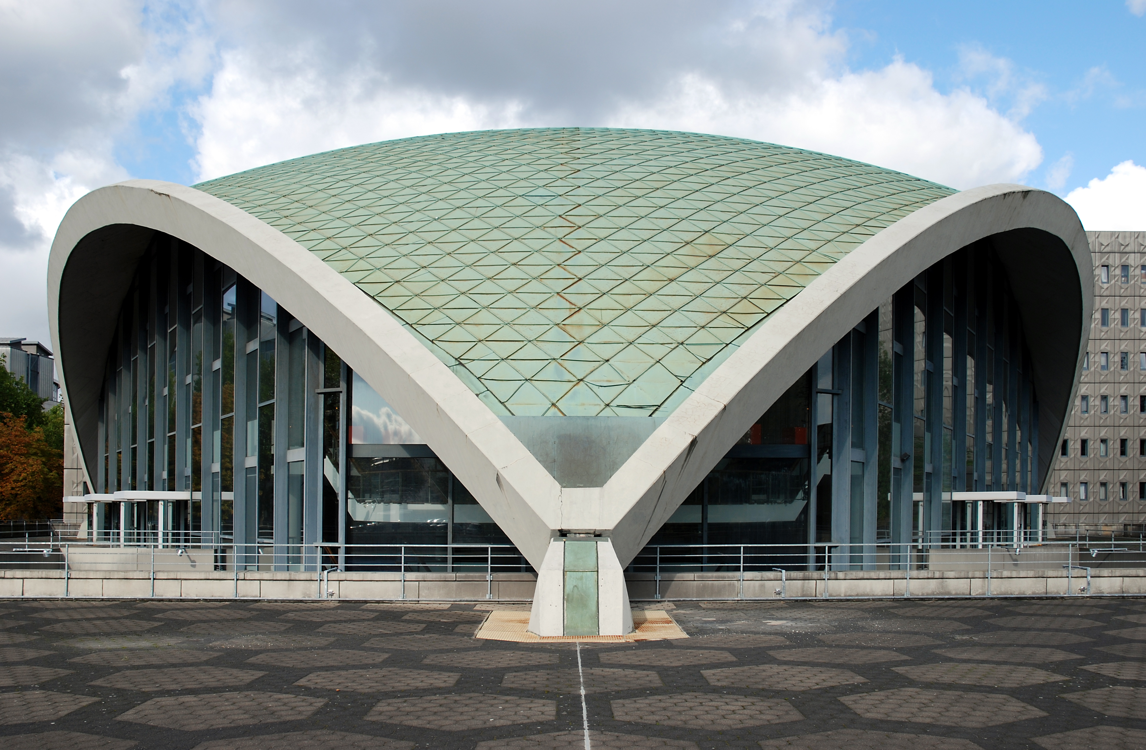 Dortmund, opera, cupola above the auditorium